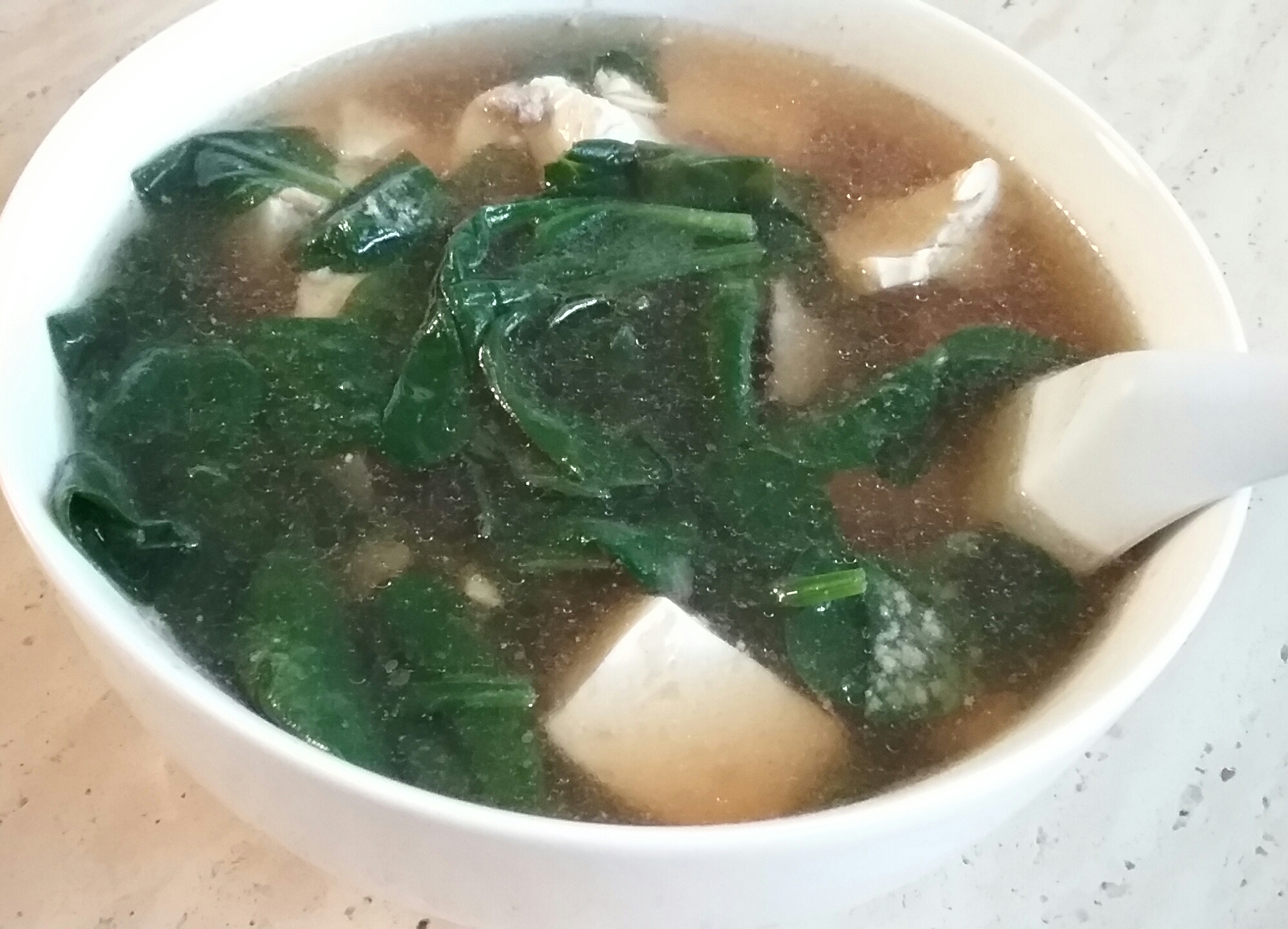 A bowl of Chinese style of Spinach Tofu soup. Also known in China as "Emerald & White Jade Soup".